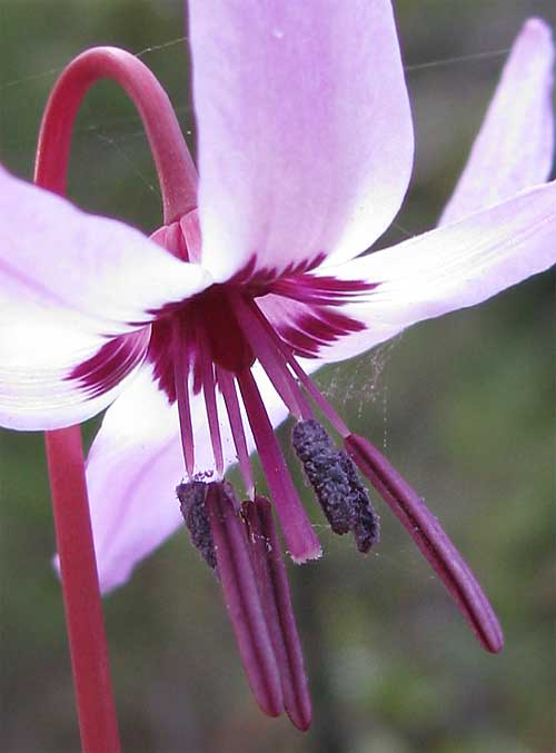 Erythronium hendersonii, Henderson's Fawn-Lily, its stamens also projecting downward just like with Category:Dodecatheon hendersonii, even though they're totally unrelated..